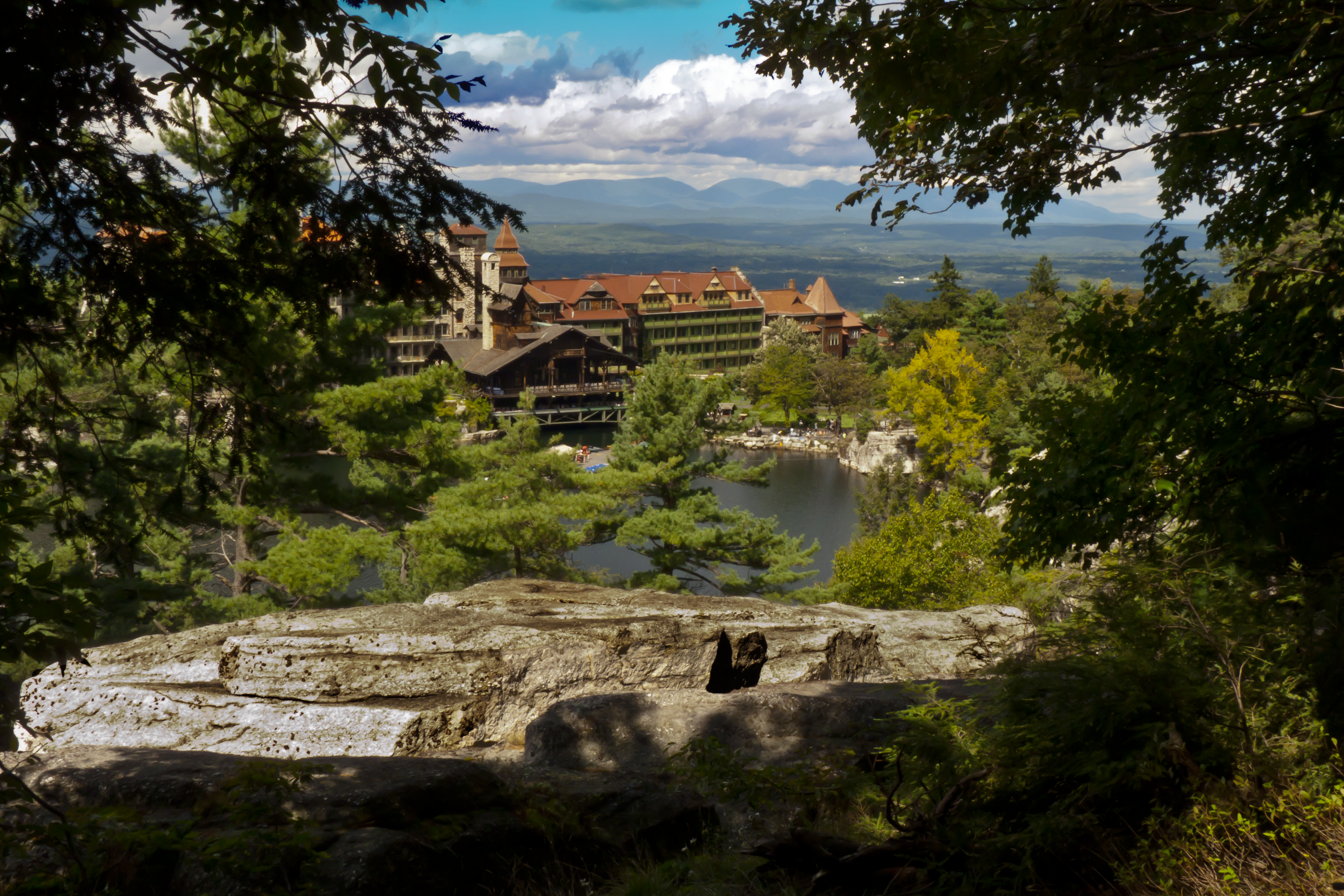 Lake Mohonk Mountain House Complex